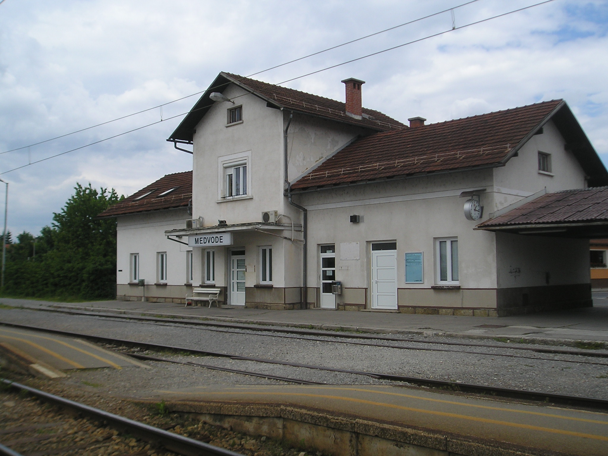 Train station in Medvode, Slovenia